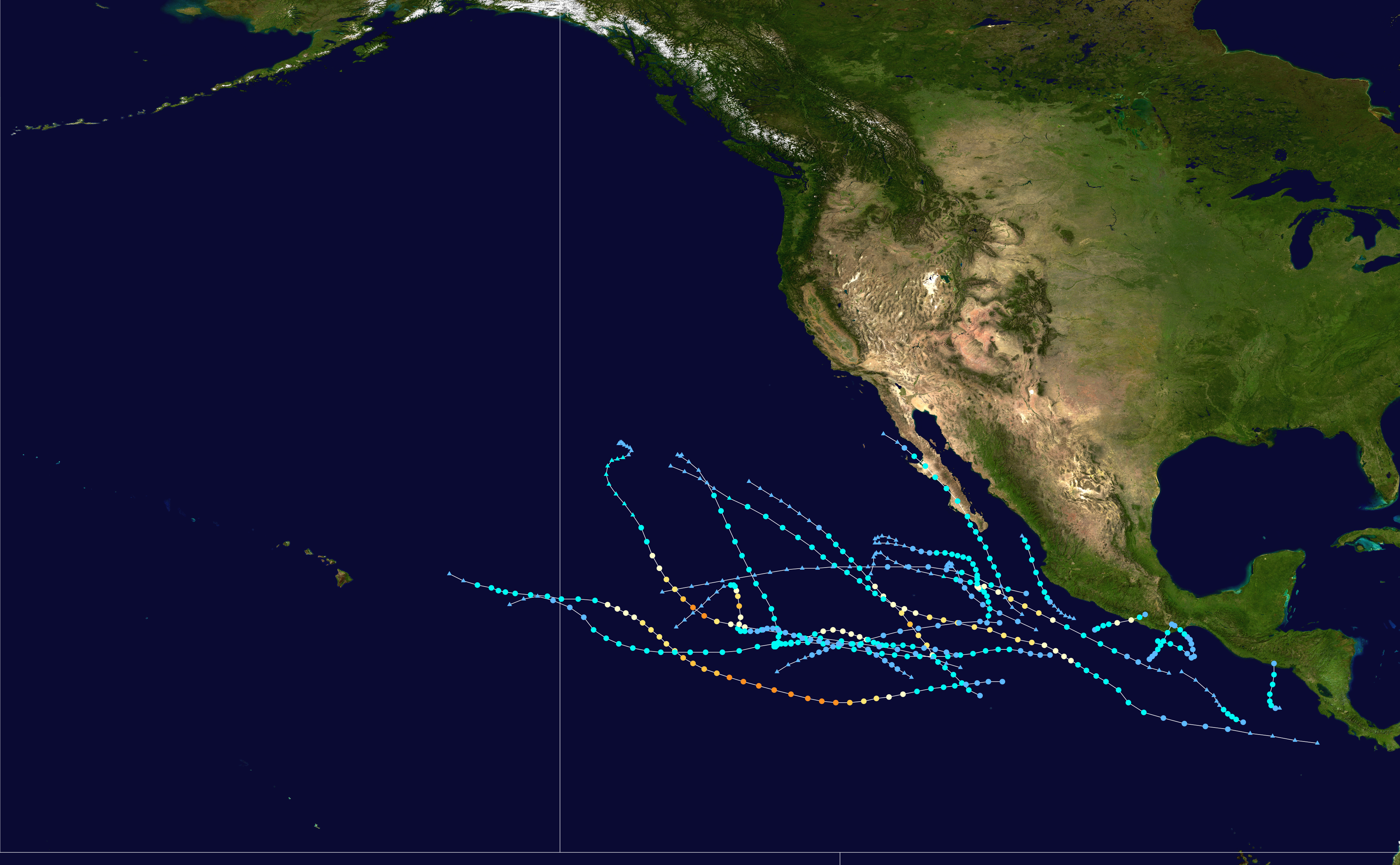 This map shows the tracks of all tropical cyclones in the 2017 Pacific hurricane season. The points show the location of each storm at 6-hour intervals. The colour represents the storm's maximum sustained wind speeds as classified in the Saffir-Simpson Hurricane Scale (see below), and the shape of the data points represent the type of the storm. Saffir–Simpson scale Tropical depression≤38 mph≤62 km/h Category 3111–129 mph178–208 km/h Tropical storm39–73 mph63–118 km/h Category 4130–156 mph209–251 km/h Category 174–95 mph119–153 km/h Category 5≥157 mph≥252 km/h Category 296–110 mph154–177 km/h Unknown Storm type Tropical cyclone Subtropical cyclone Extratropical cyclone / Remnant low / Tropical disturbance / Monsoon depression